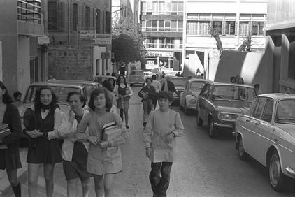 Lebanese Jewish Students - 1970